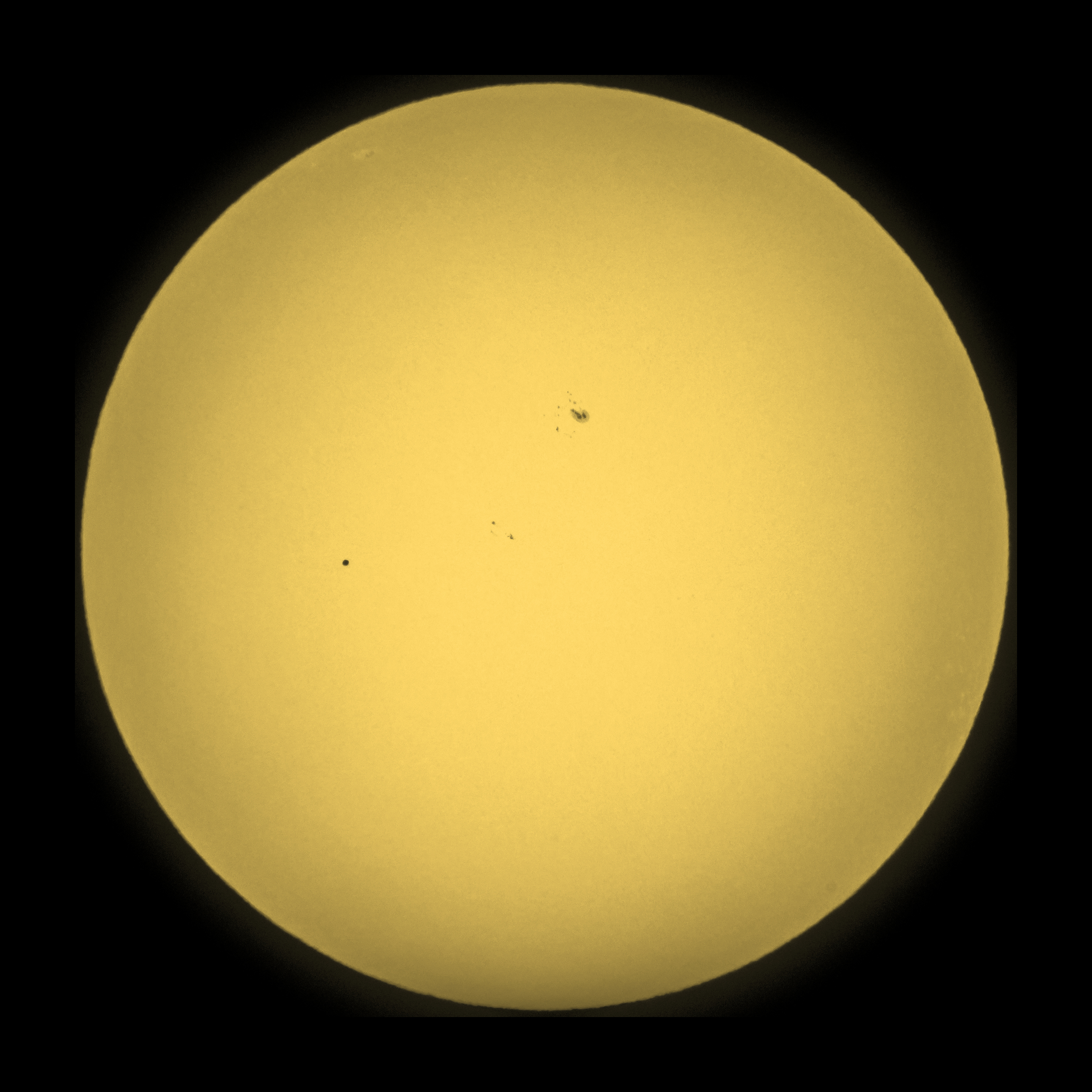 Transit of Mercury, 2016-05-09 13:52 UTC (Mercury in front of the sun). Photographed using a Telescope ED80 600mm, Baader-AstroSolar filter, Baader Solar Continuum filter, Baader Hyperion 17mm